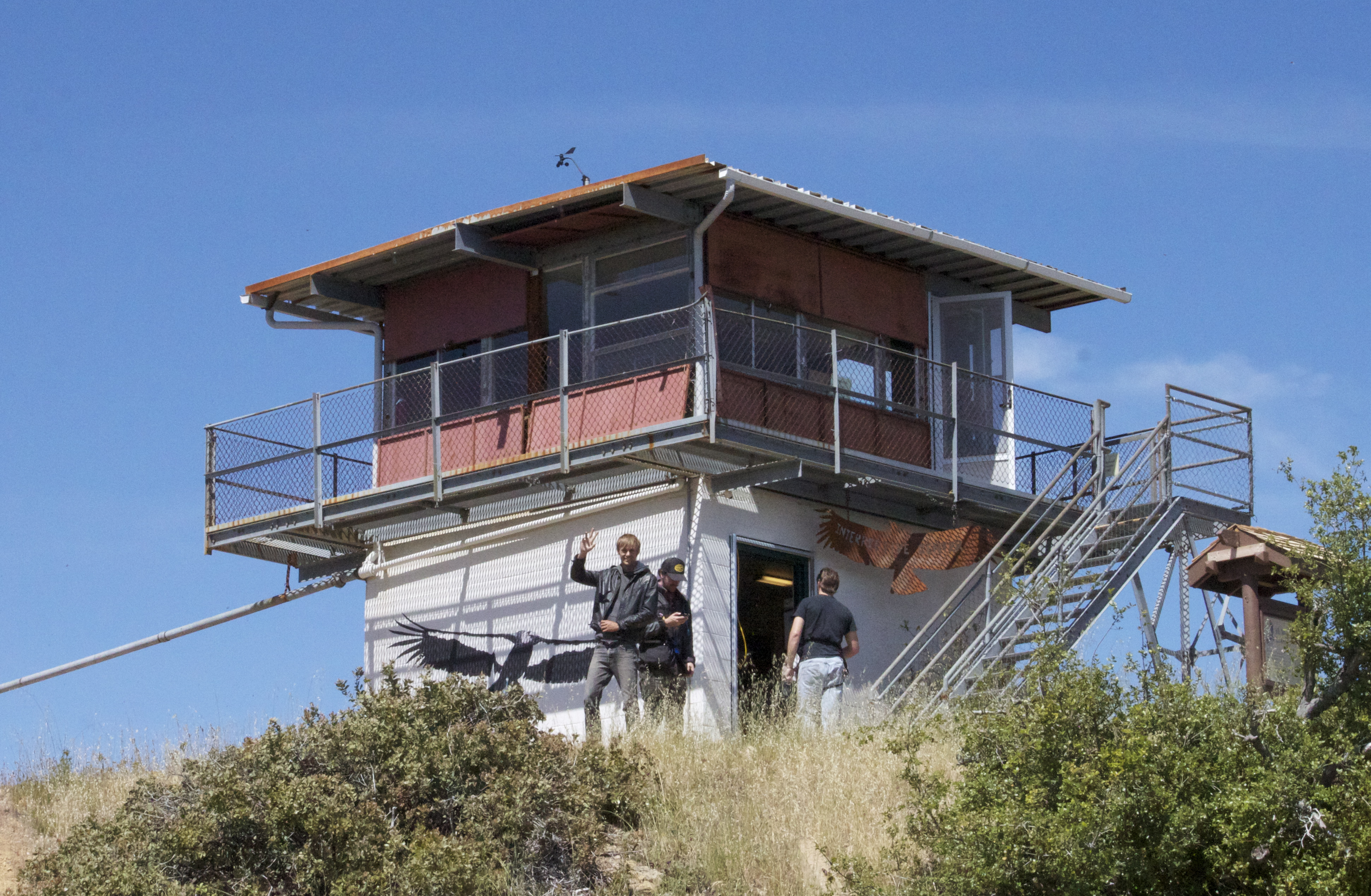 Former USFS fire lookout on Hi Mountain, remodelled into a public Condor lookout and educational center.